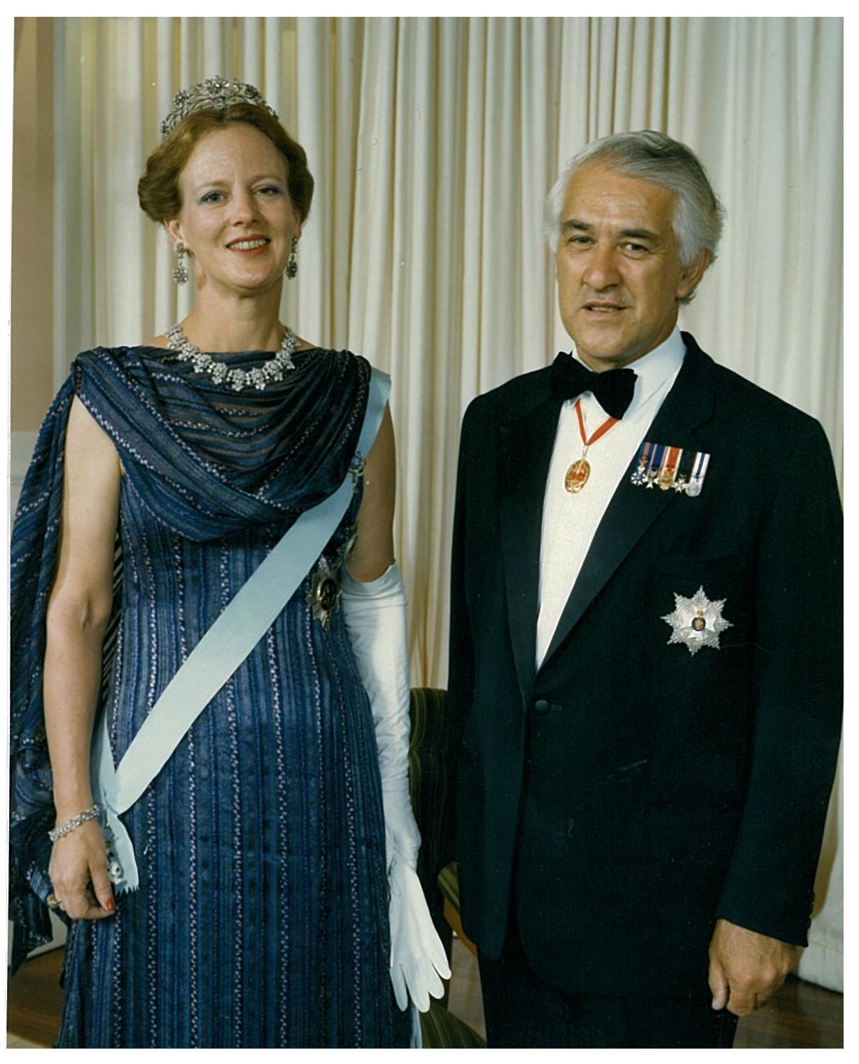 Sir Paul Reeves pictured with the Queen of Denmark, Queen Margrethe II, at Government House in Wellington, in February 1987